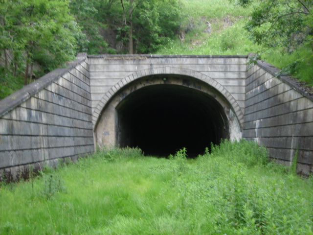 Bowshank Tunnel. Going North through the Bowshank Tunnel on the Old Waverley Line